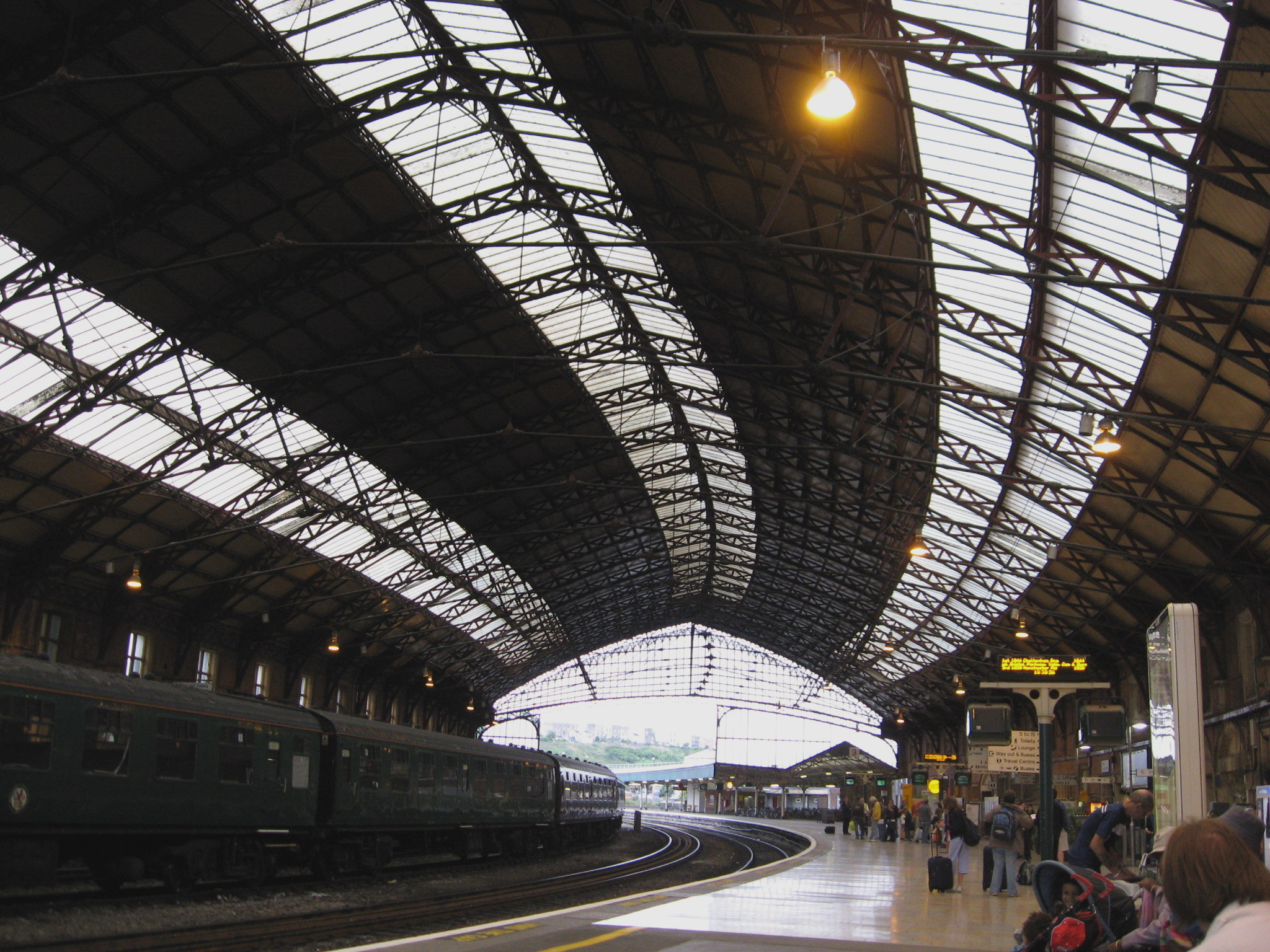 Platform 3,Temple Meads station, Bristol, England, designed by Isambard Kingdom Brunel